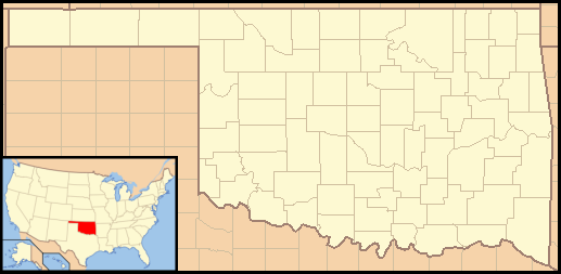 Locator Map of Oklahoma, United States